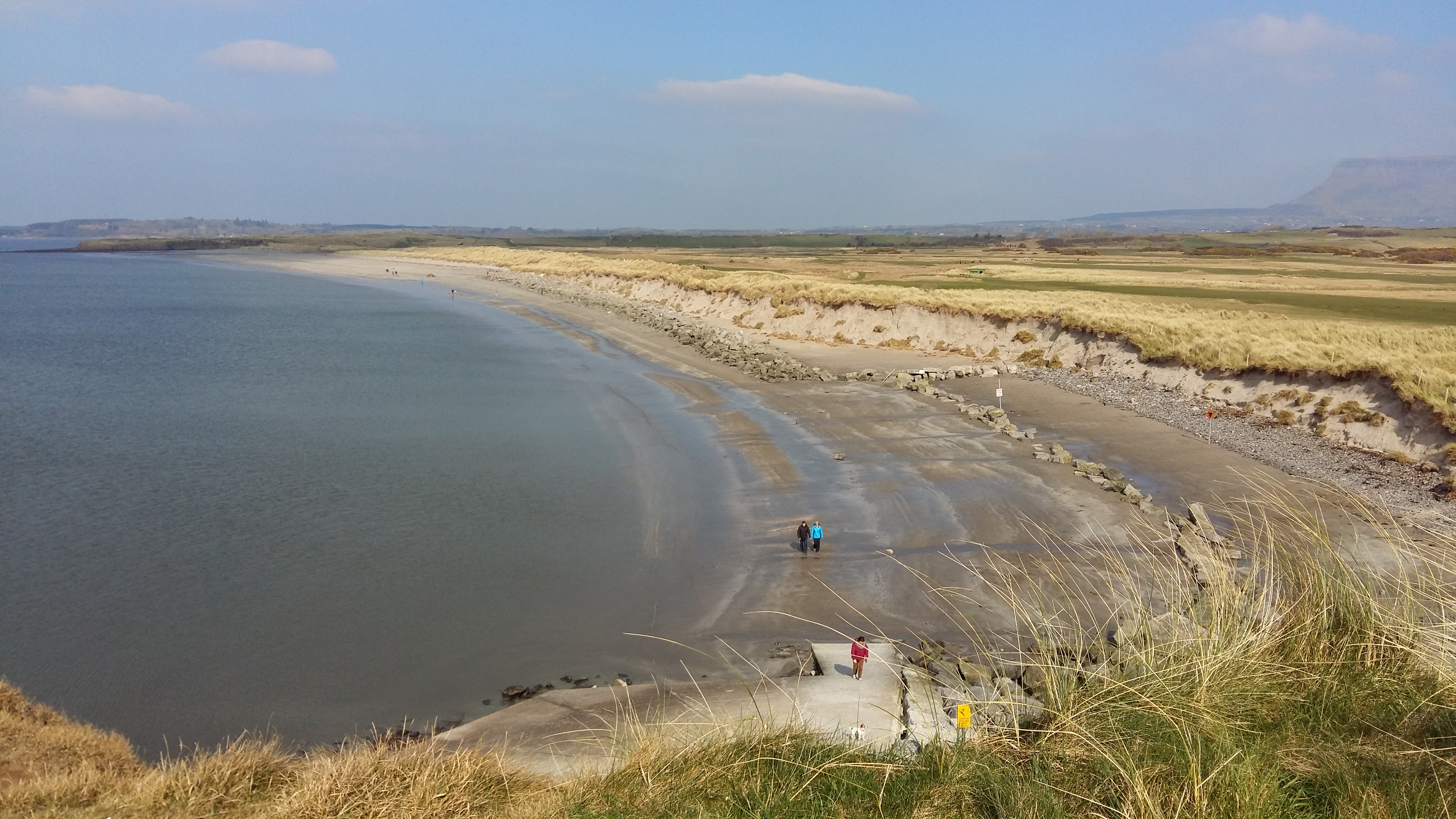 Overlooking the beach